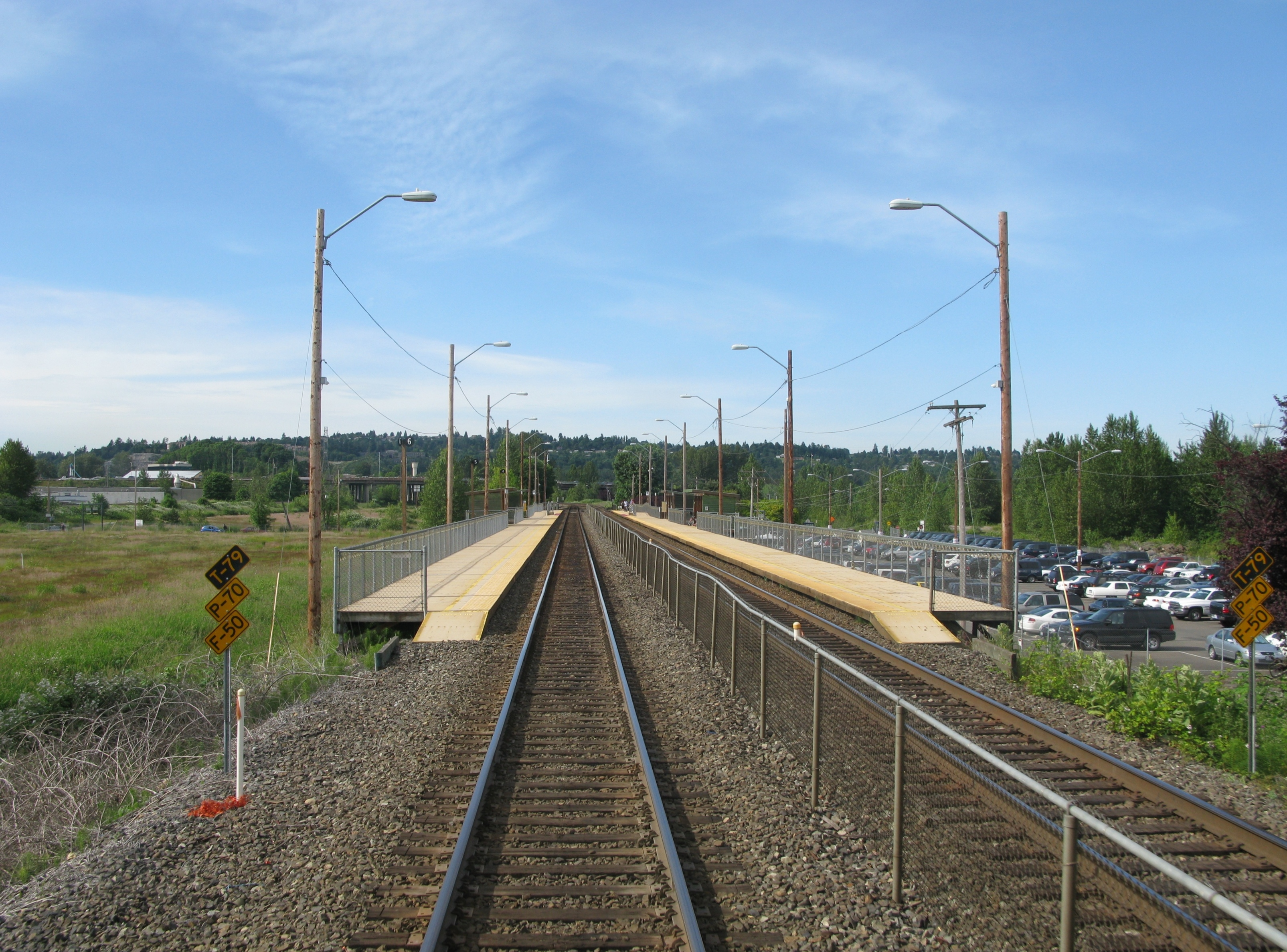 Tukwila Sounder Station